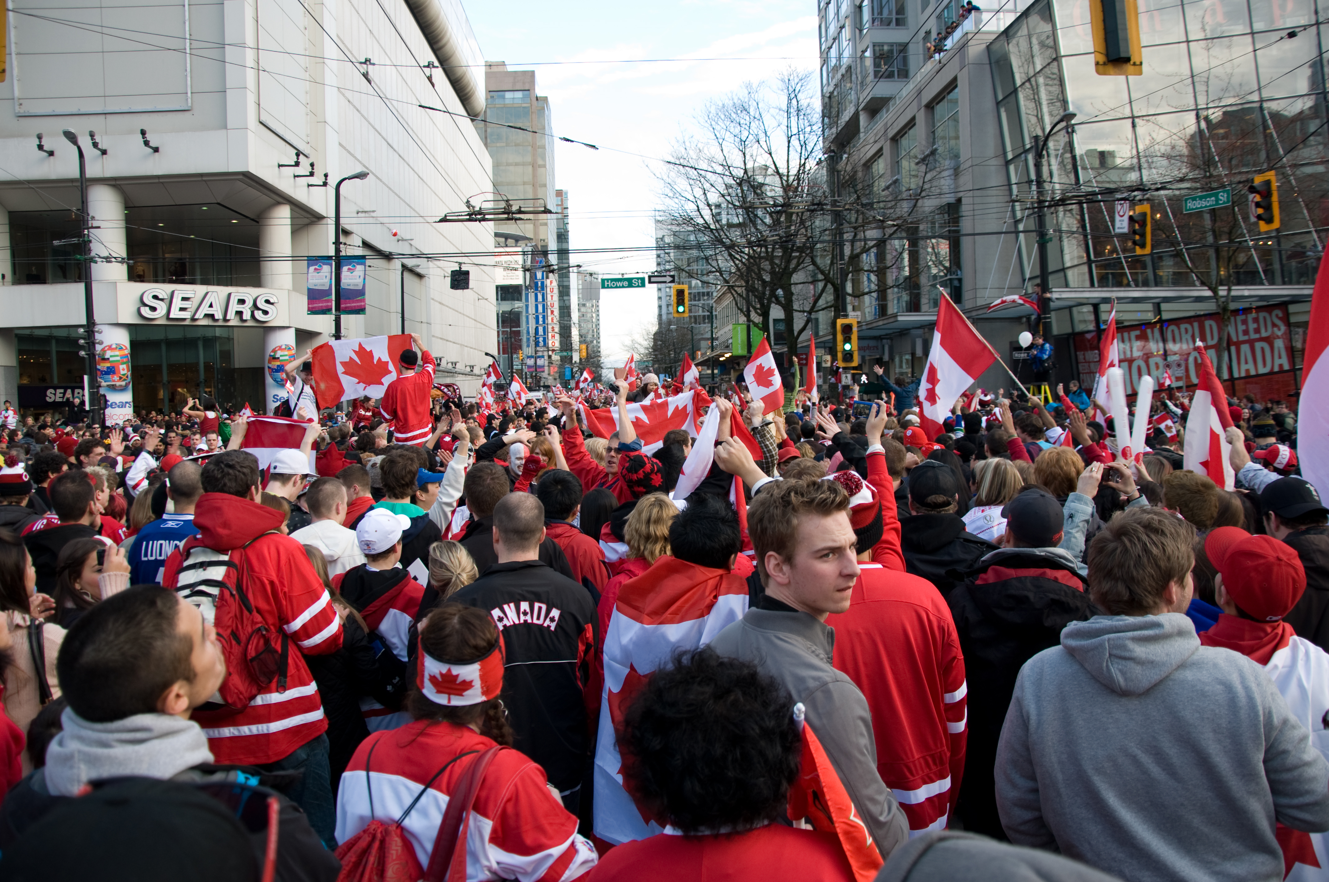 Celebrating Canada's Victory in the Gold Medal Hockey Game on Robson Street, Vancouver 2010